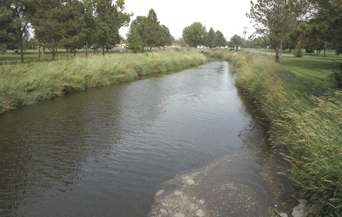 Photograph by Tim Kiser. The Buffalo River at Hawley, 21 August 2004.